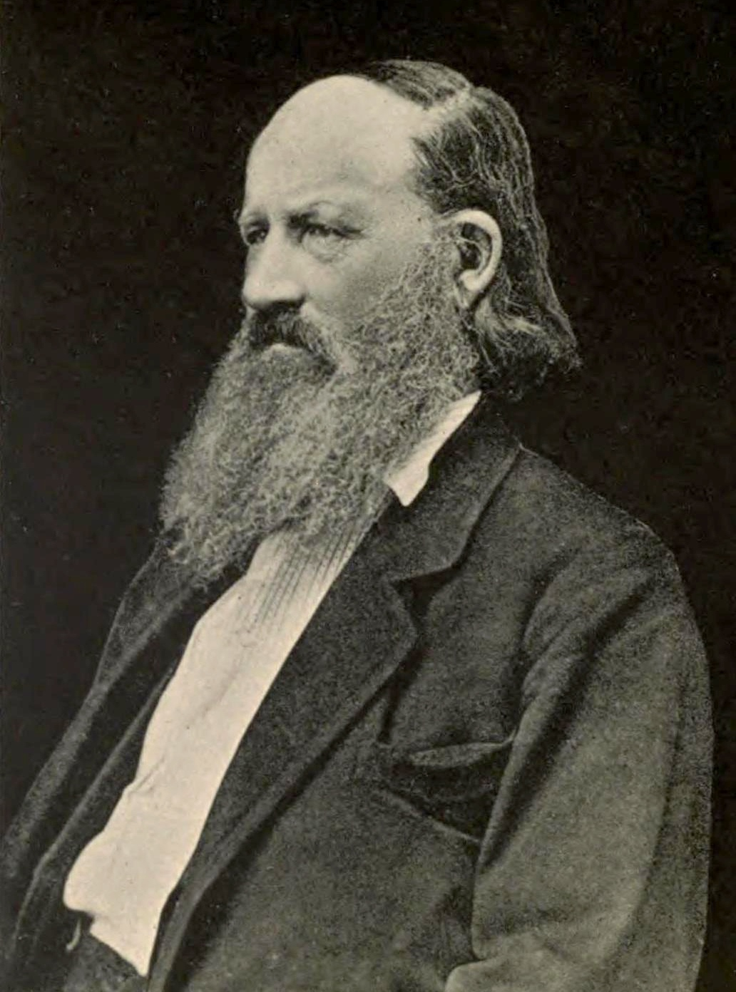 Photograph of Abraham Fornander made about 1878 (courtesy of Kungliga bibliotet, Stockholm, Sweden.